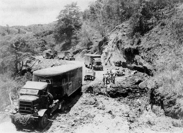 China-bound supply convoy travels up the Burma Road. (U.S. Army Military History Institute)